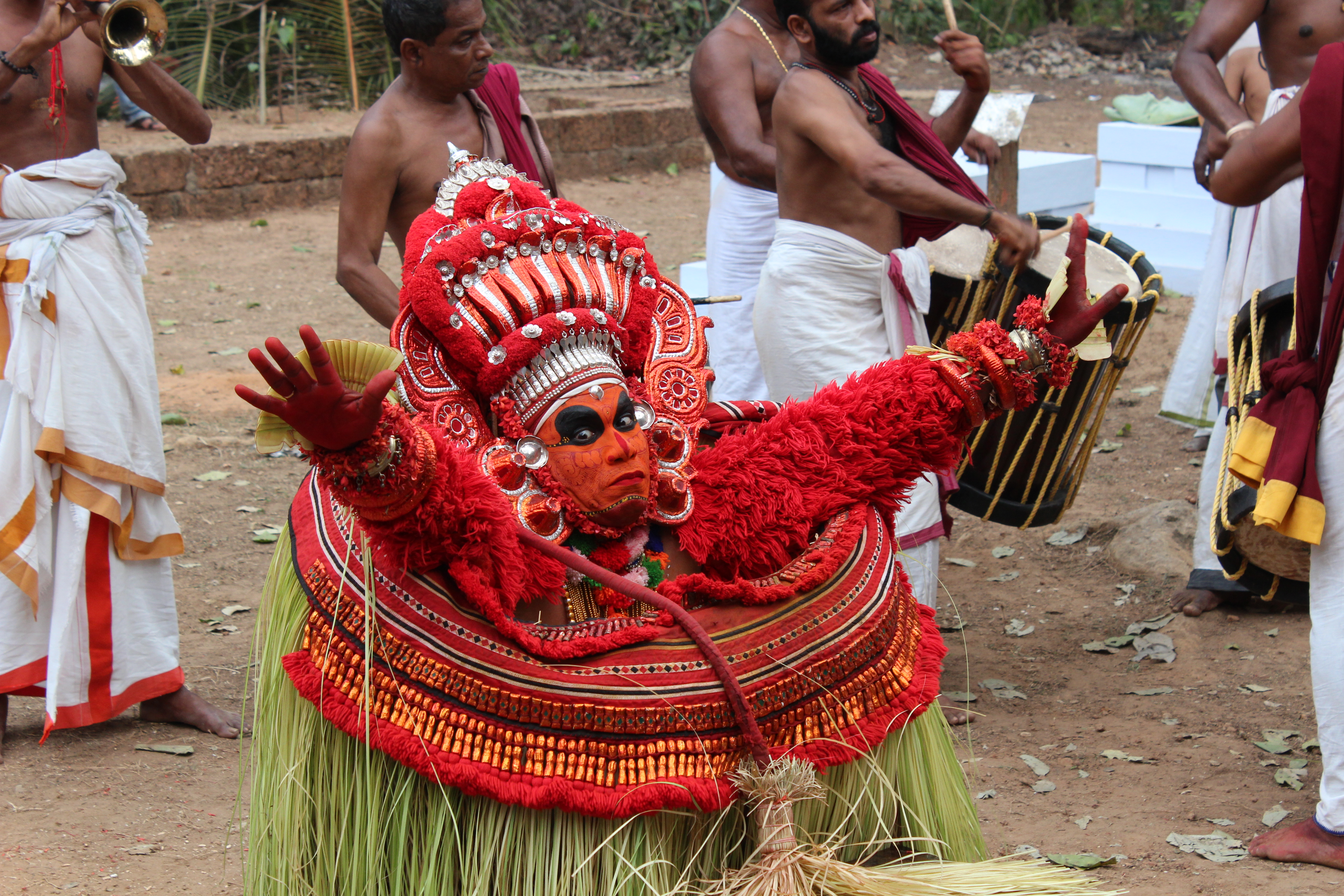 a theyyam from vadavil.